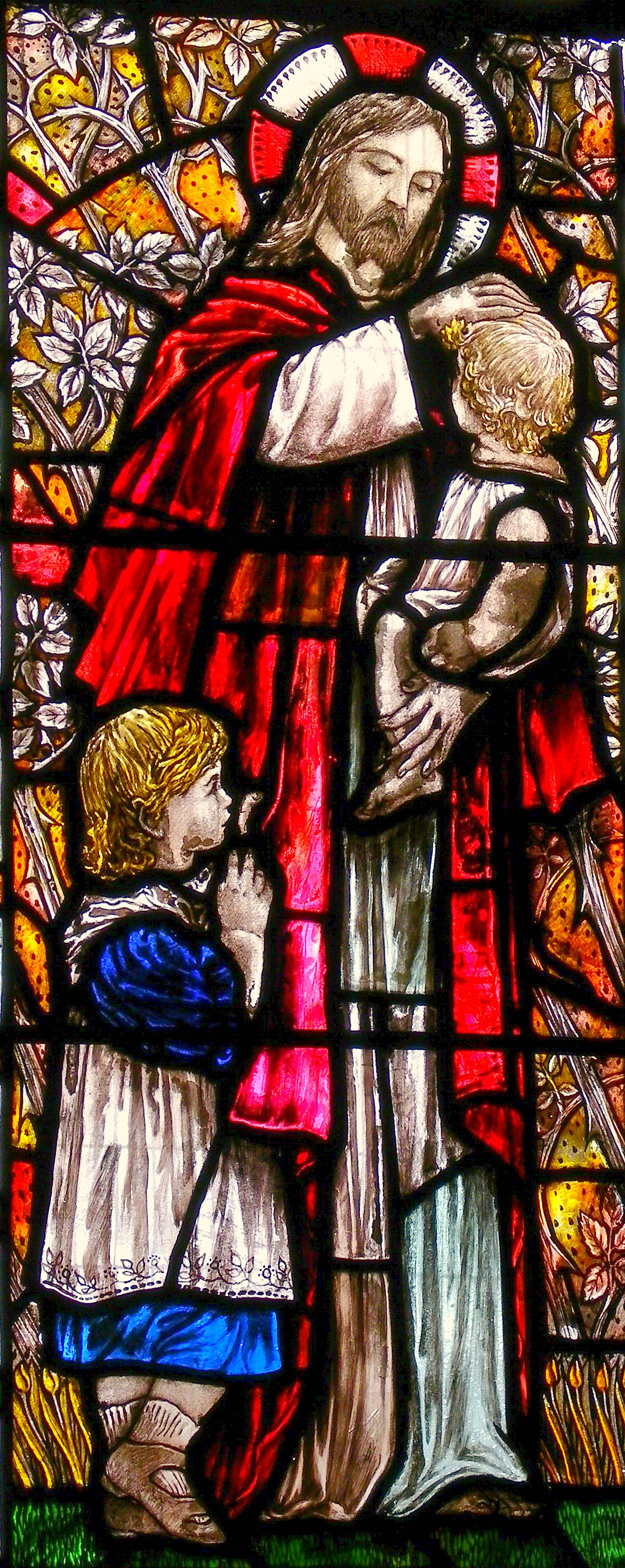 1906 stained glass window in Holy Trinity parish church, Bracknell, Berkshire by Christopher Whall. It represents Jesus blessing the children: in classic Whall style the children are in Edwardian clothes.